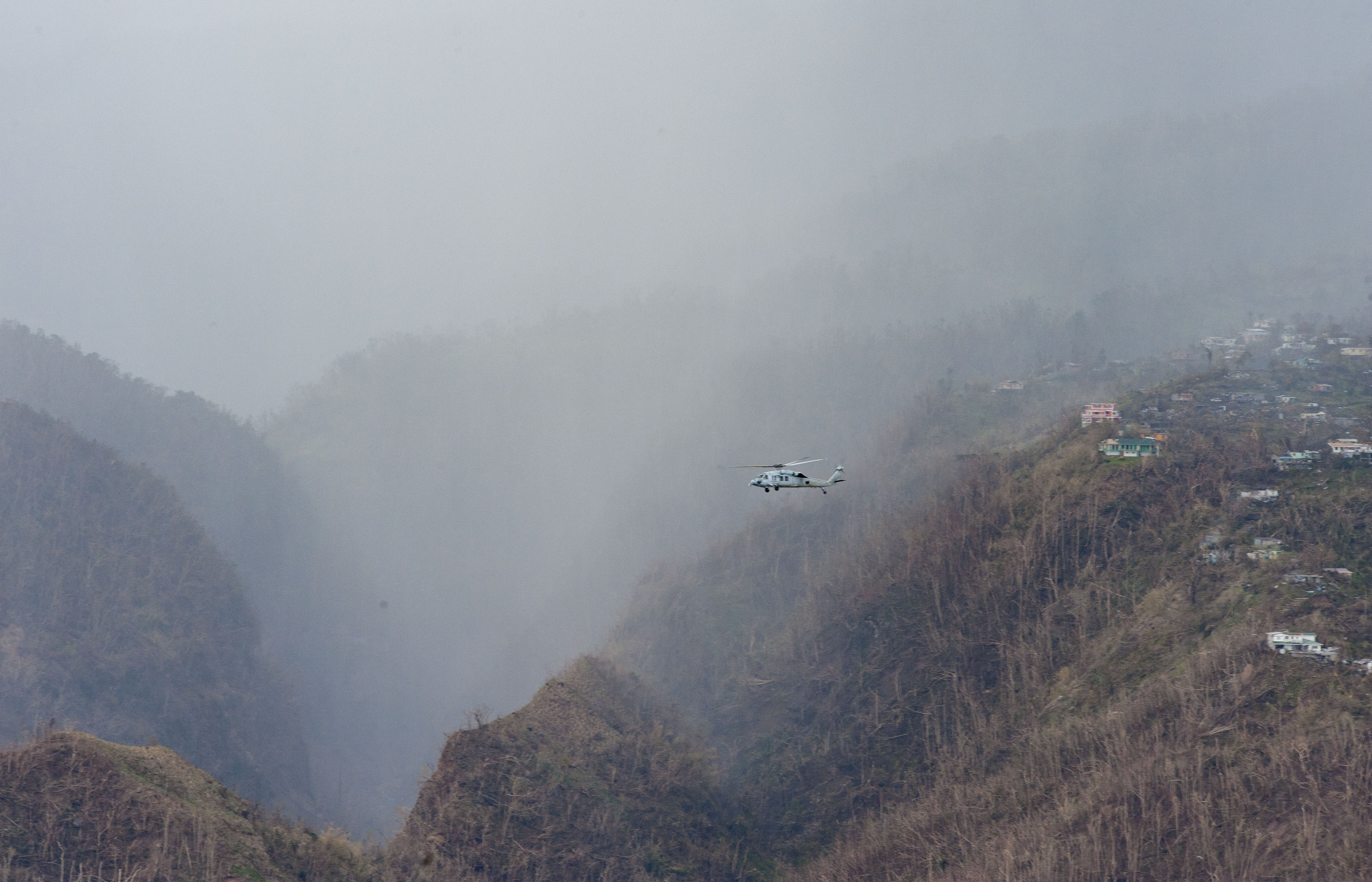 DOMINICA (Sept. 24, 2017) An MH-60S Sea Hawk helicopter from Helicopter Sea Combat Squadron 22 (HSC-22), attached to the amphibious assault ship USS Wasp (LHD 1), performs humanitarian aid operations on the embattled island of Dominica following the landfall of Hurricane Maria. The Department of Defense is supporting United States Agency for International Development (USAID), the lead federal agency, in helping those affected by Hurricane Maria to minimize suffering and is one component of the overall whole-of-government response effort. (U.S. Navy photo by Mass Communication Specialist 3rd Class Michael Molina/Released)170924-N-VK310-0009 Join the conversation: navylive.dodlive.mil